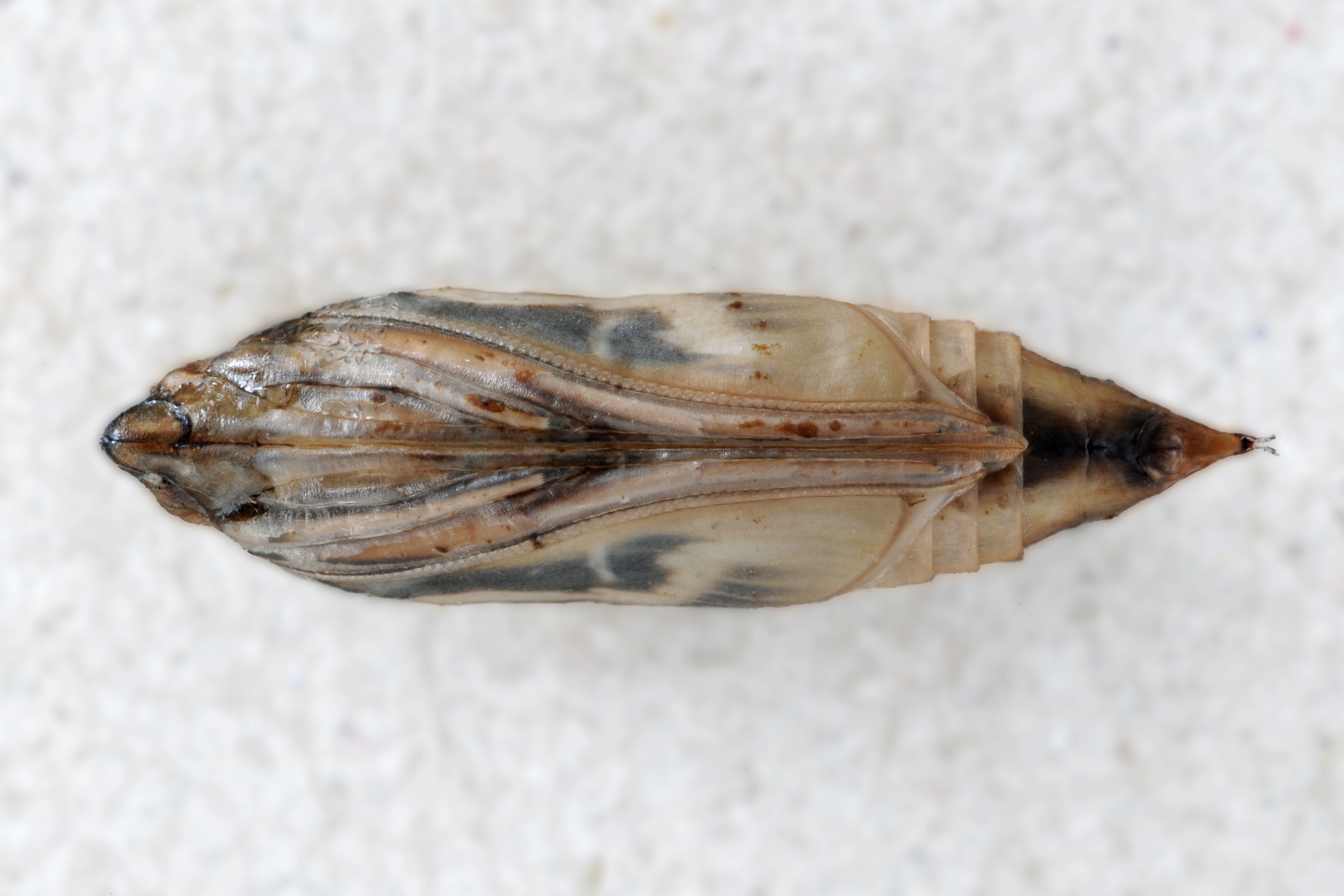 Cydalima perspectalis, pupa after about 10 days, picture taken in Mannheim/Germany